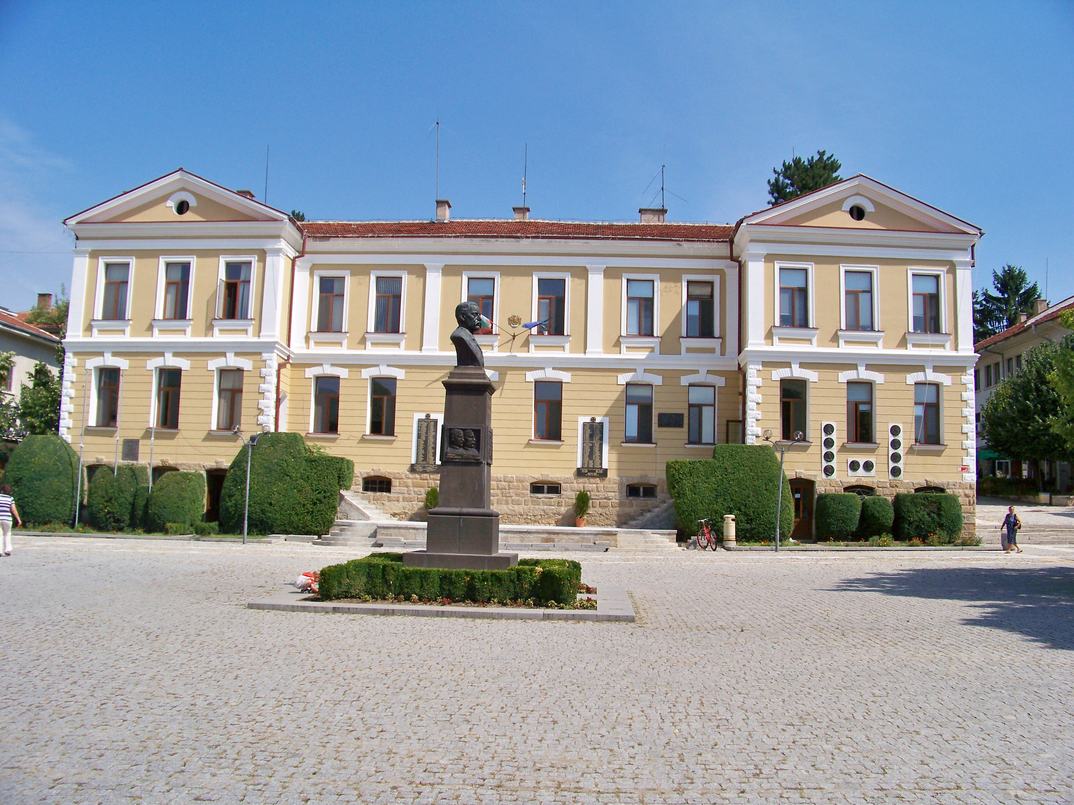 Kotel, Sliven Province, Bulgaria: city hall and bust of Georgi Rakovski.